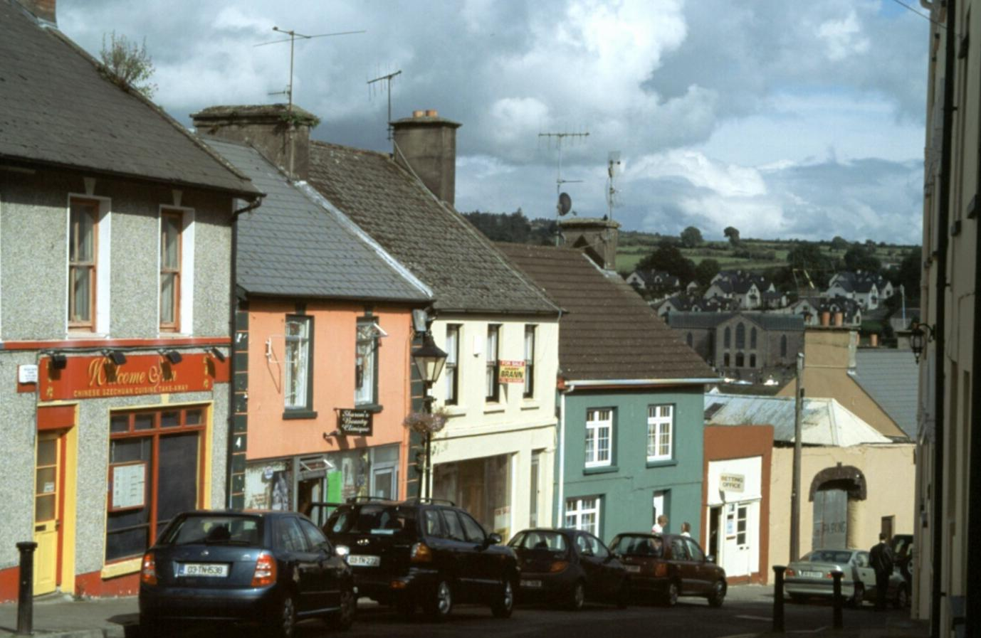 Killaloe, County Clare, Ireland View from Hill Road